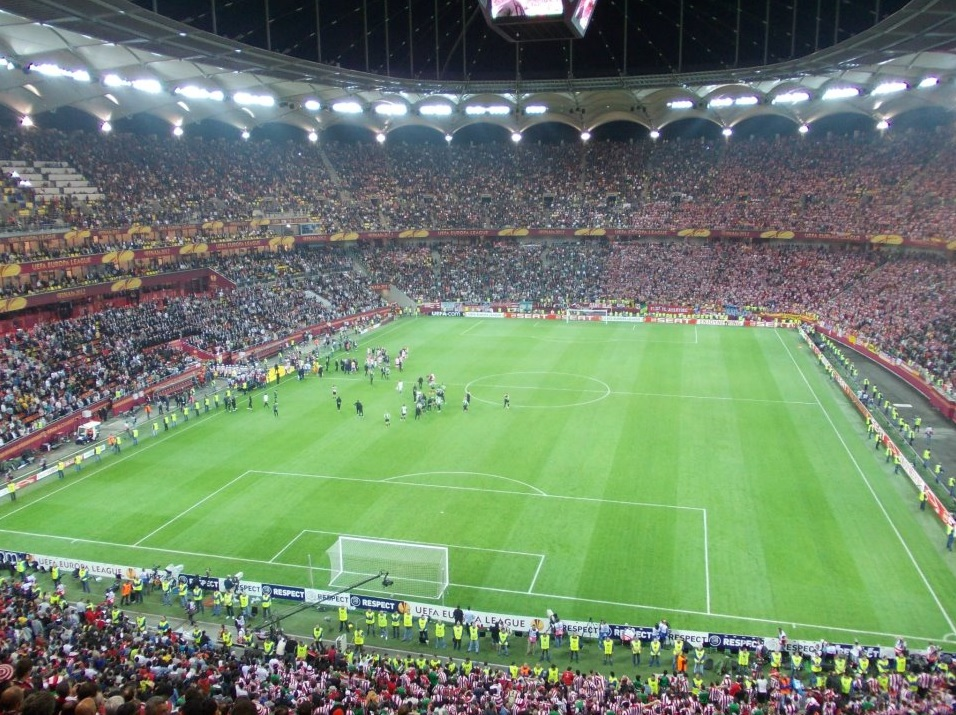 2012 EL Final in Arena Națională in Bucharest, Romania Atlético Madrid v. Athletic Bilbao (May 9)